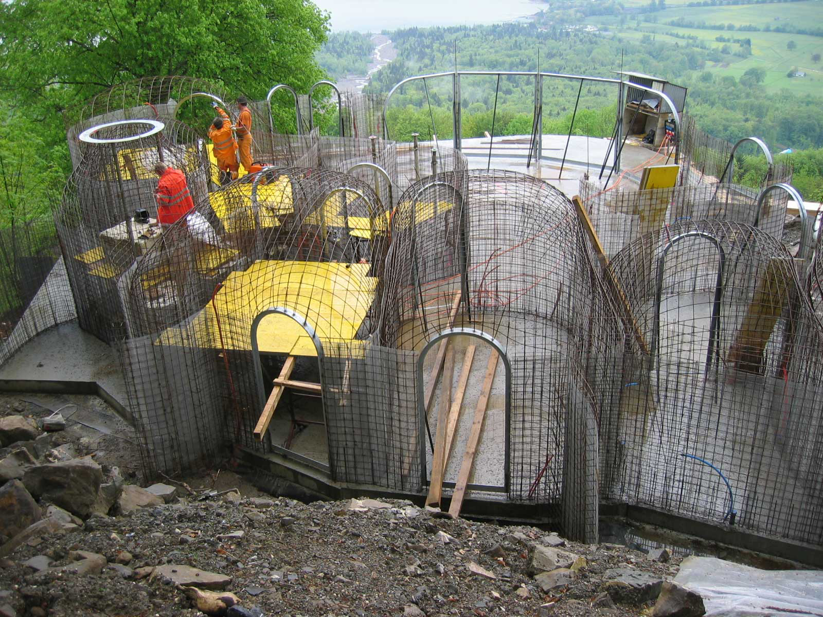 Meshed metal stretch net construction (Earth house by Peter Vetsch)